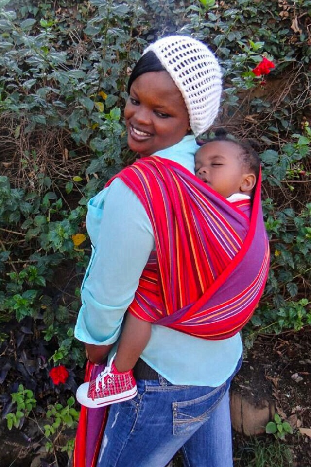 Happy mama carrying her sleeping baby on a kikoi Toto wraps baby Carrier This is an image of Cultural Fashion or Adornment from Kenya